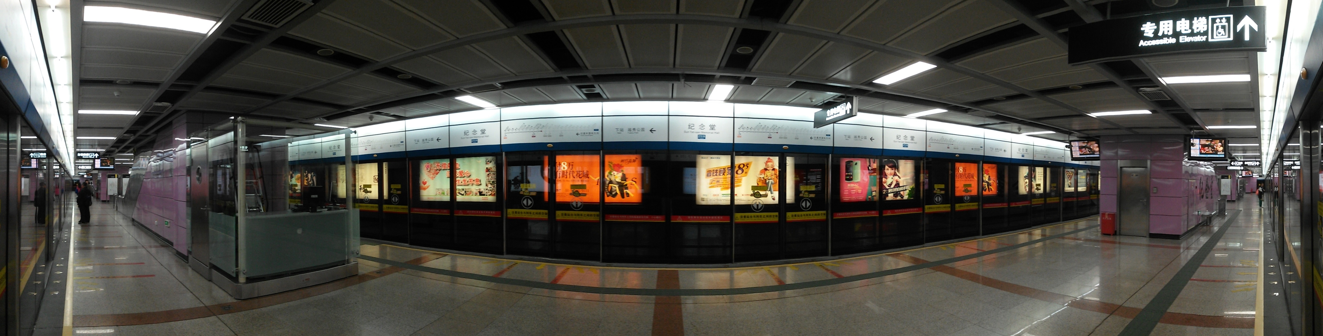 FULL SIGHT of Platform for Sun Yat-sen Memorial Hall Station in Guangzhou Metro